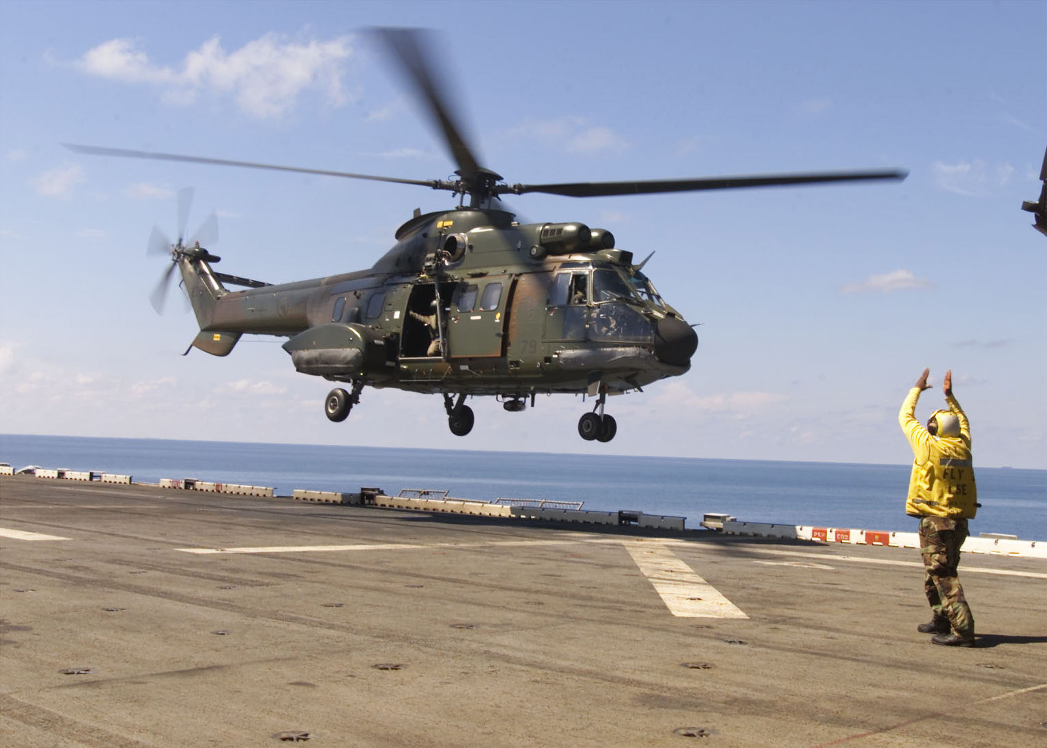 An AS 332 Super Puma helicopter from the Republic of Singapore Air Force is guided to the flight deck of USS Inchon (MCS-12) on 13 June 2001. The Singapore Air Force conducted deck landing qualification aboard the USS Inchon during the 1st Western Pacific Mine Countermeasures Exercise (MCMEX) 2001. MCMEX involved 14 countries, in an effort to maintain safe navigation of international waterways by using mine hunting and disposal techniques of the participating navies. Hosted by Singapore, the exercise includes participants from Australia, China, France, India, Indonesia, Japan, Malaysia, Papua New Guinea, Russia, Singapore, South Korea, Thailand, United States, and Vietnam.